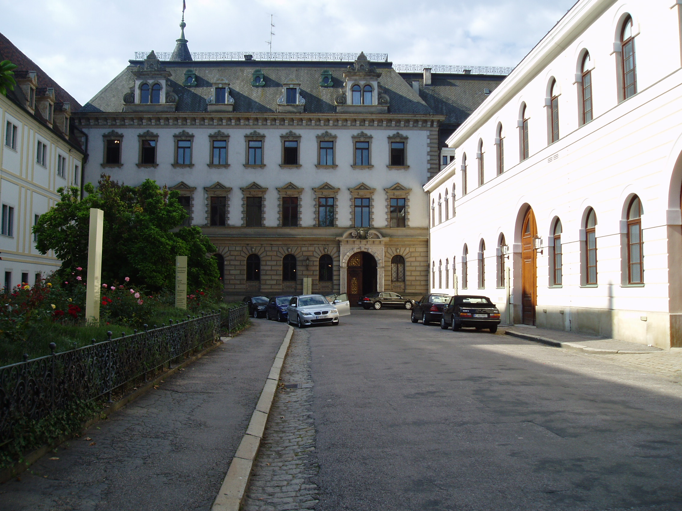 Schloss Thurn und Taxis in Regensburg